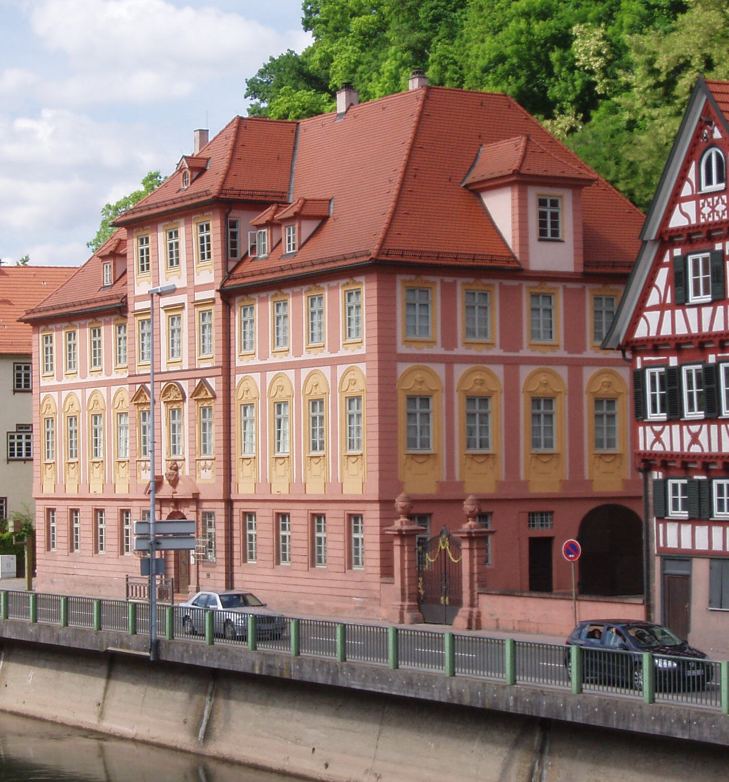 Museum in Calw